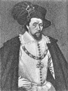 King James IC